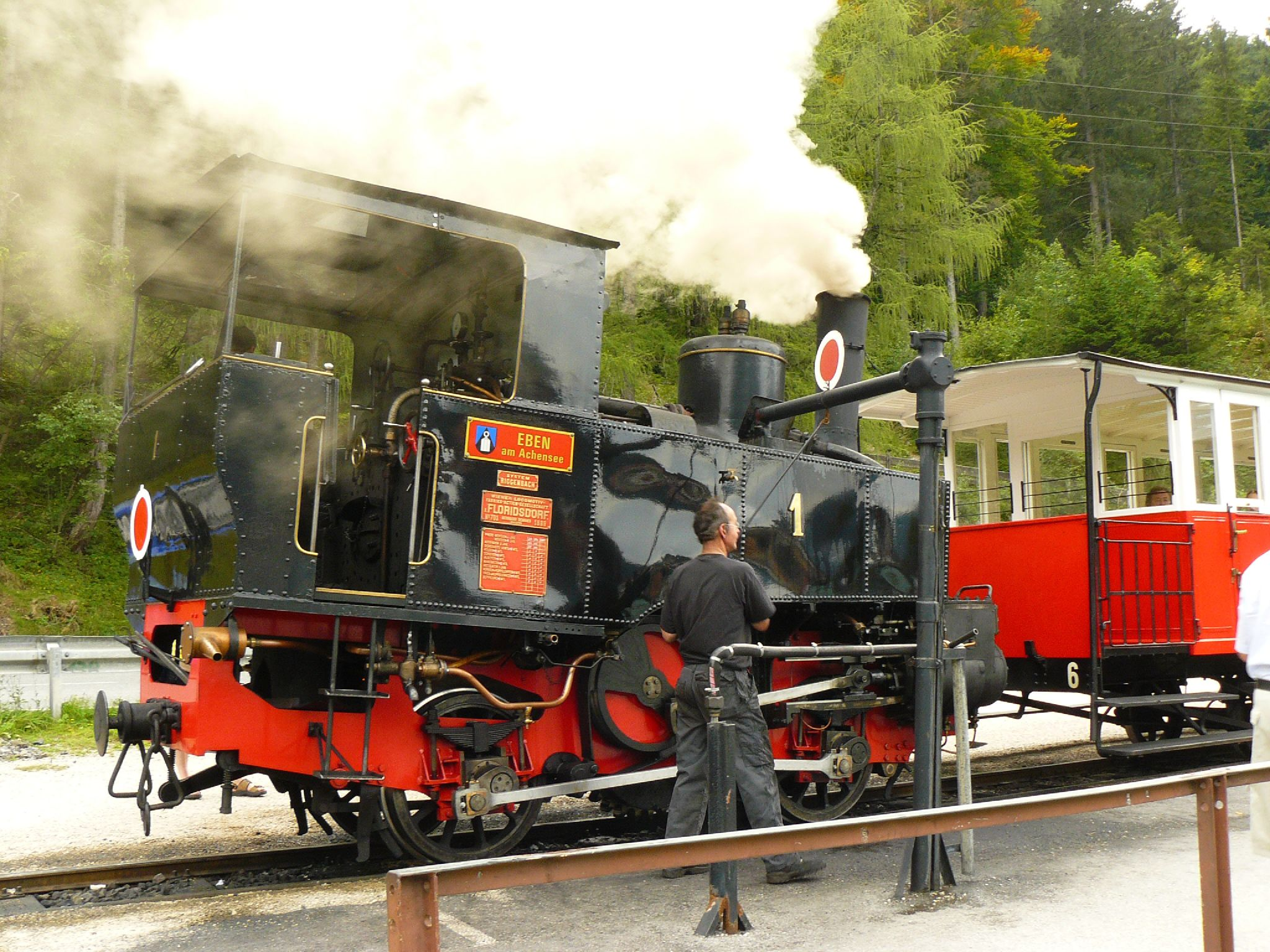 Achenseebahn locomotive No. 1 at Seespitz station. This engine was heavily damaged during a fire incident in the Jenbach engine shed in May 2008, repair is planned for the future.